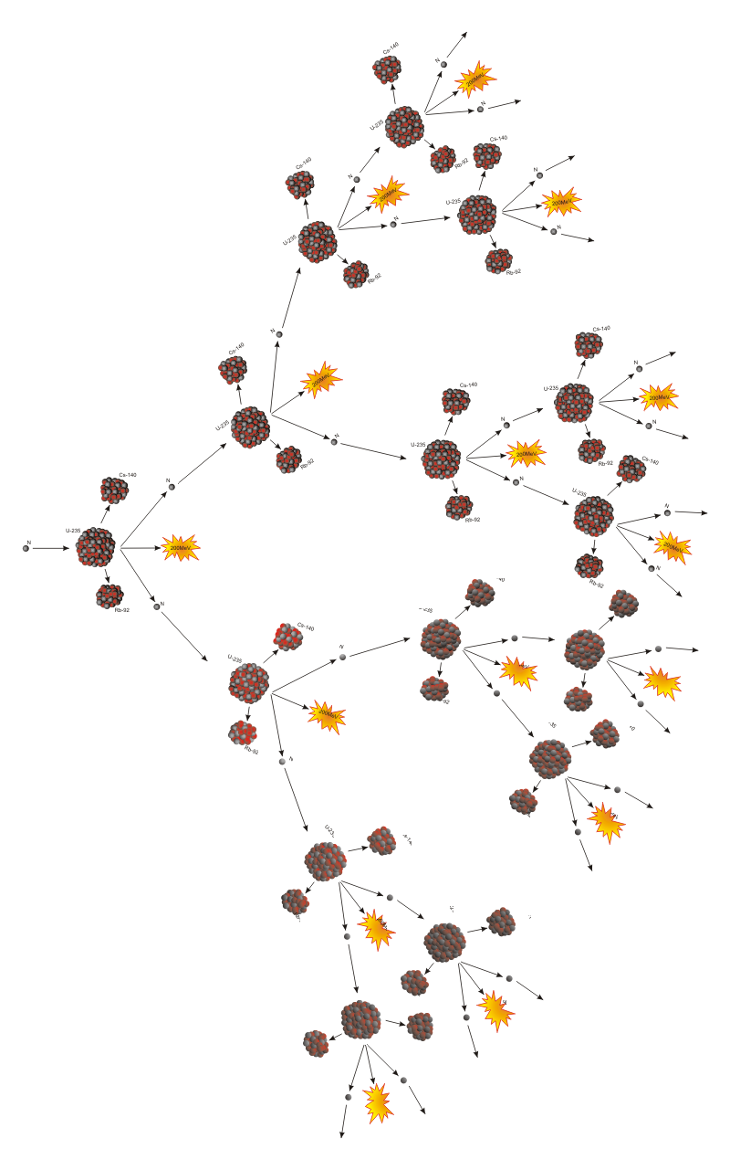 A Chainreaction with Uranium 235